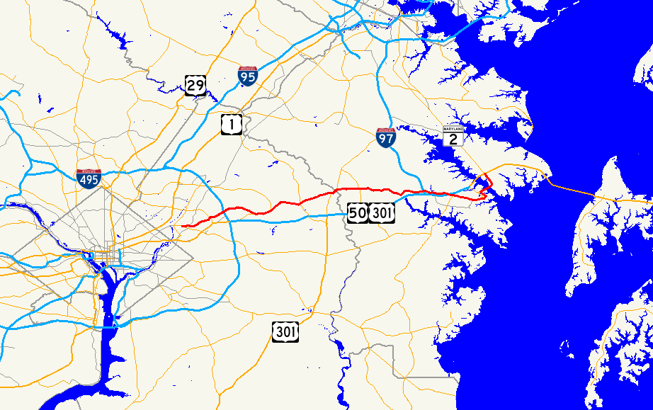 Map of Maryland Route 450